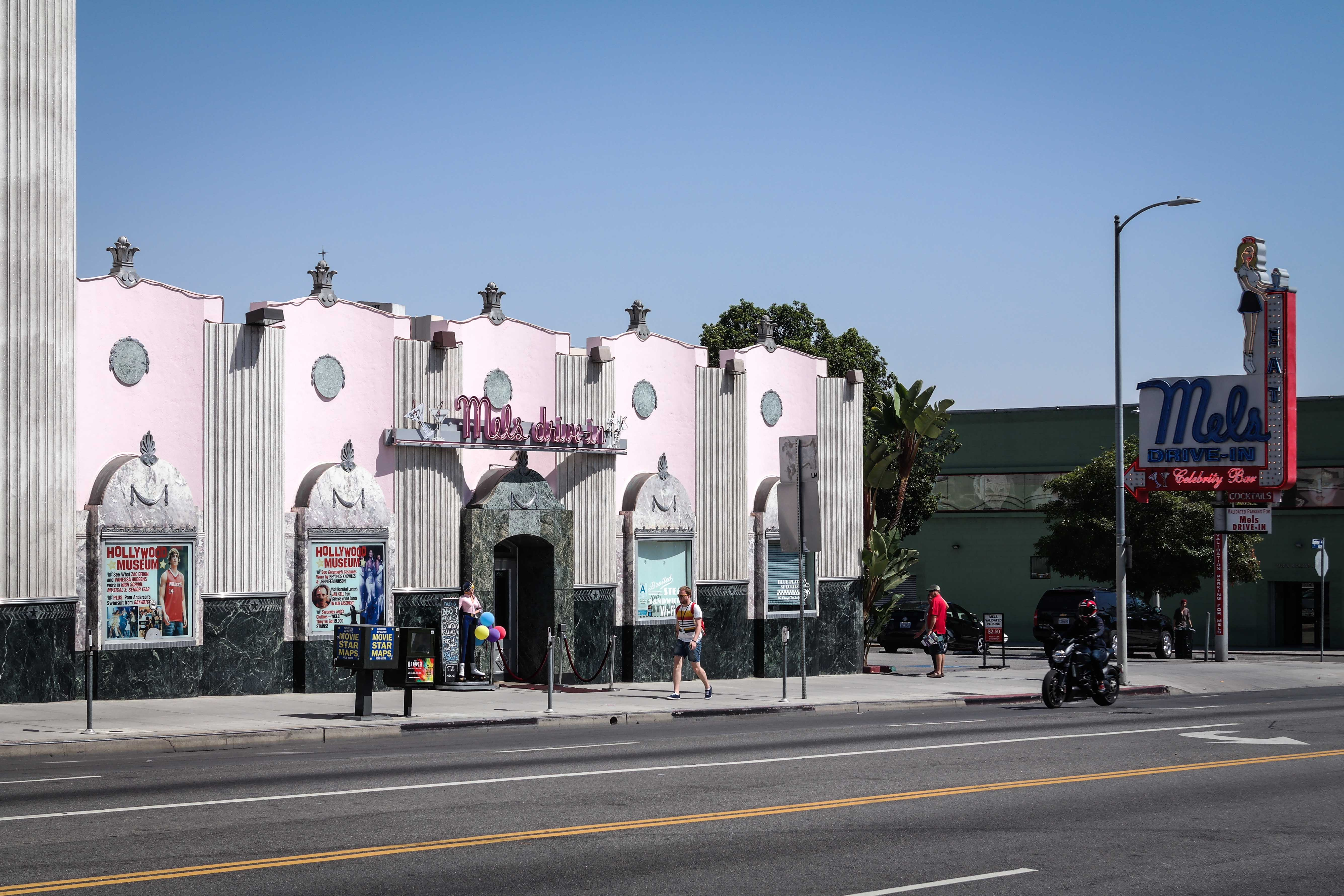 A view of the Max Factor Building in Hollywood